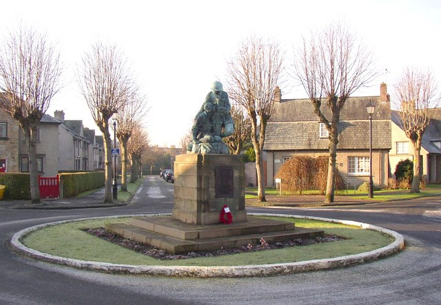 War Memorial, Westfield Memorial Village, Lancaster This is the centre-piece of this housing estate for war veterans.